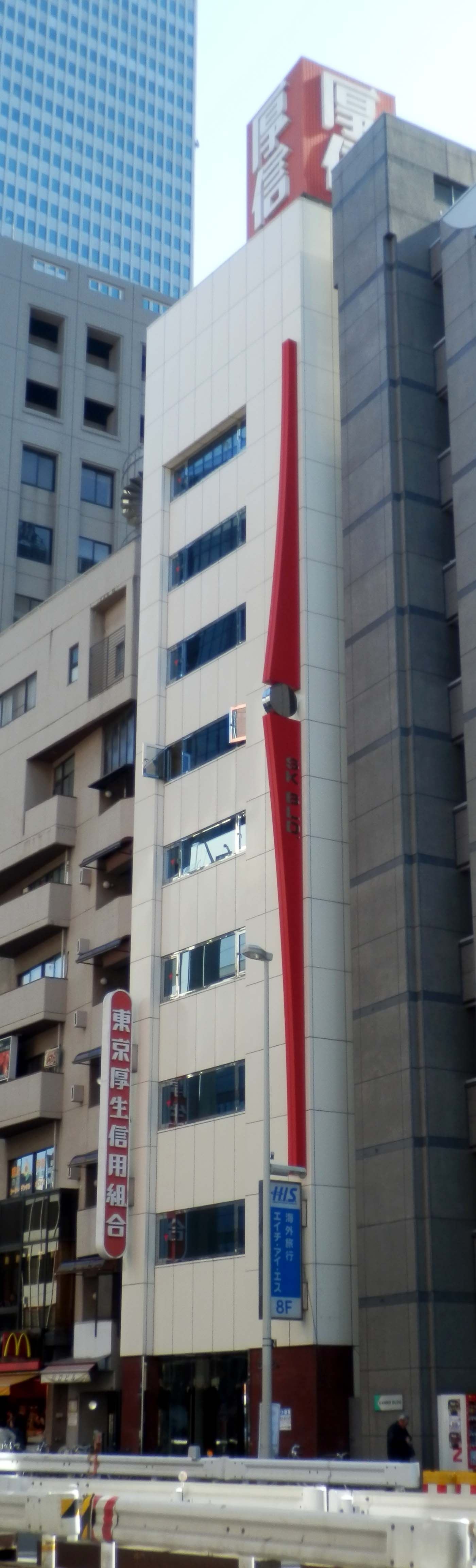 Tokyo Kosei Shin-yo Kumiai (Credit Union in Tokyo, Japan)